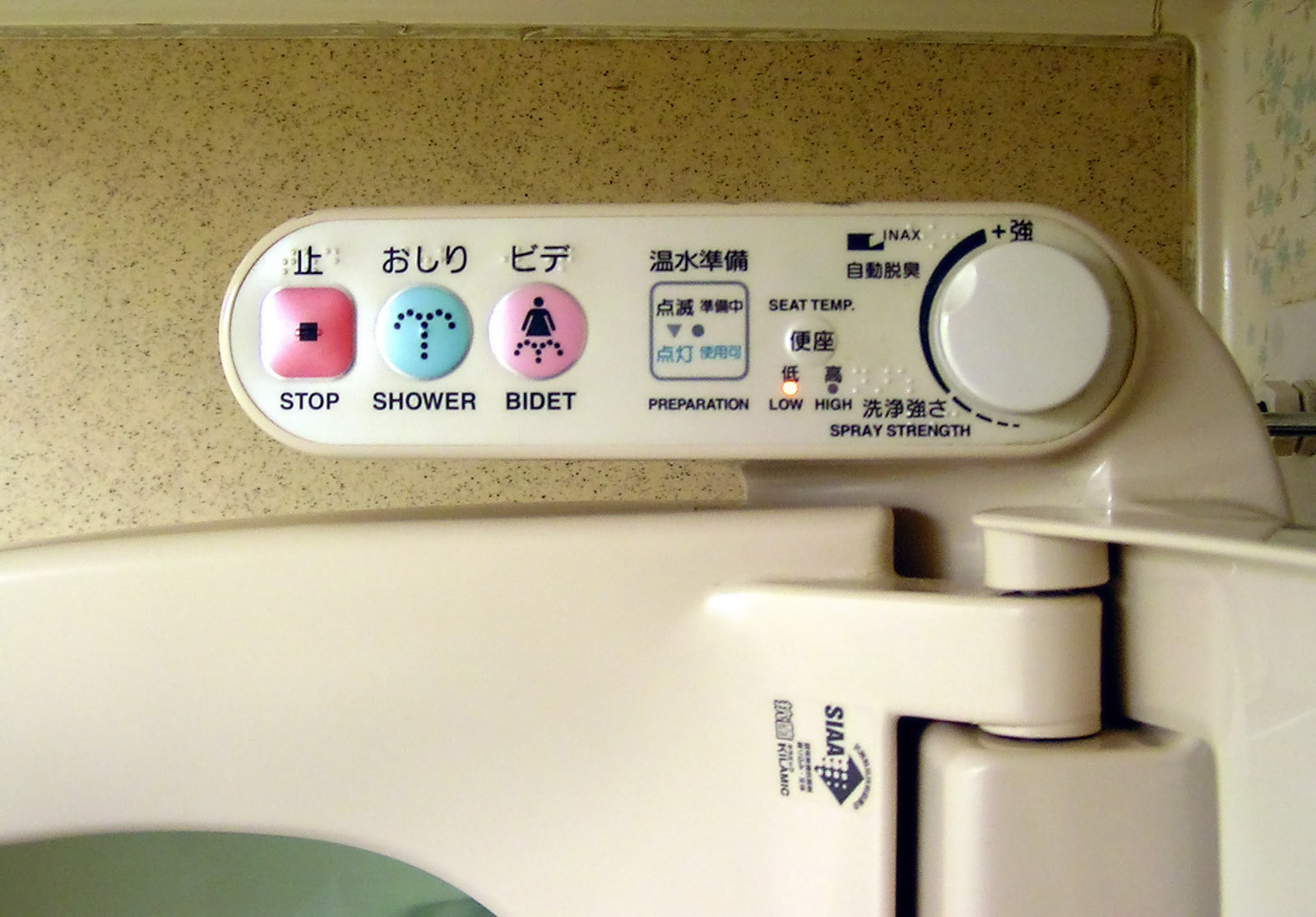 Operating controls on a modern Japanese toilet, labelled in Japanese, English and braille.